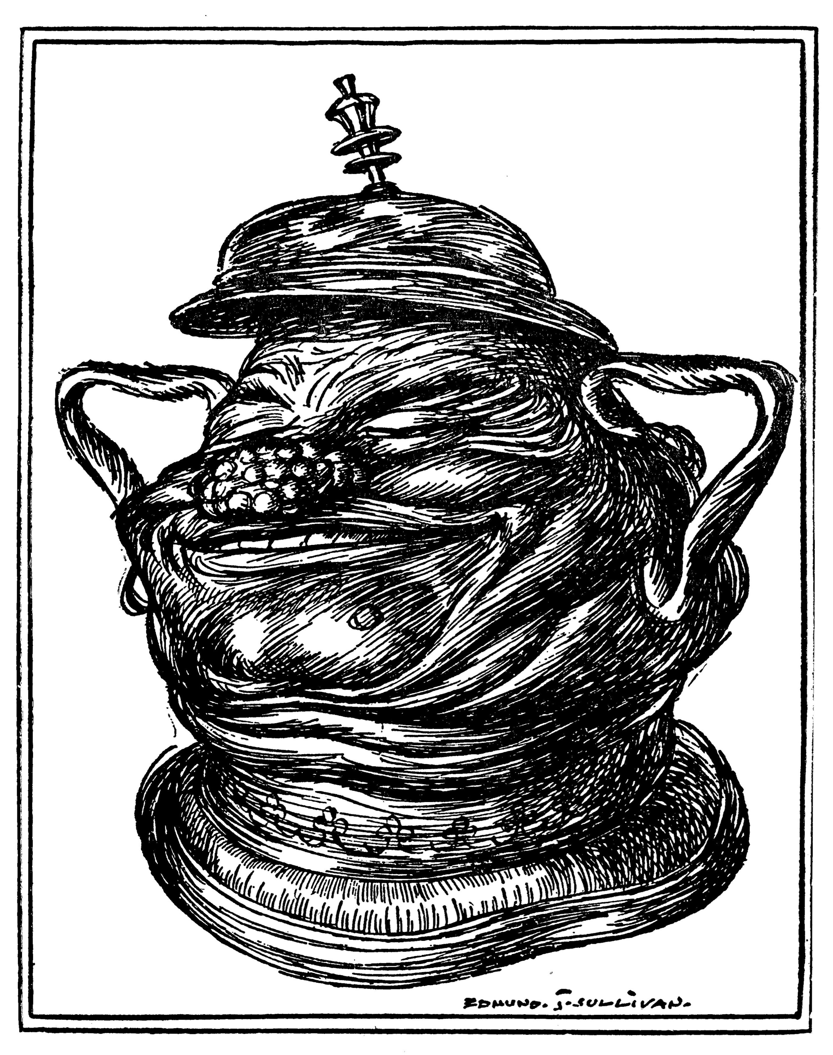 This is a quatrain illustration by Edmund J. Sullivan to the Rubaiyat of Omar Khayyam, First Version (translated by Edward Fitzgerald).